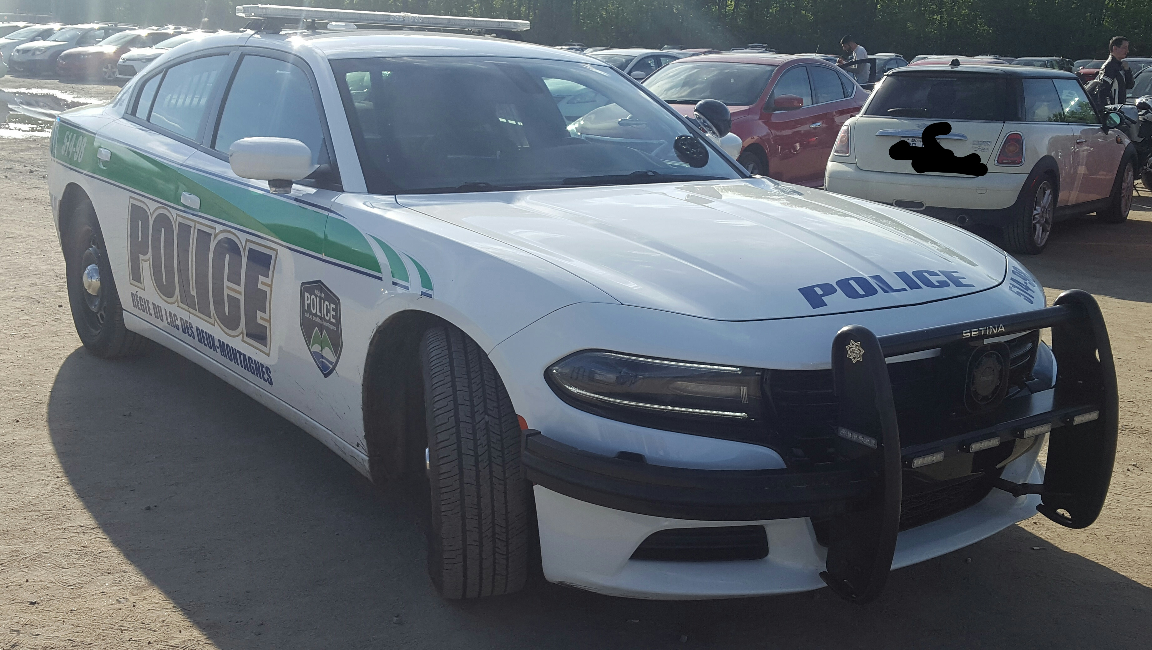 2015-present Dodge Charger Deux-Montagnes police car photographed in Pointe-Calumet, Québec, Canada .